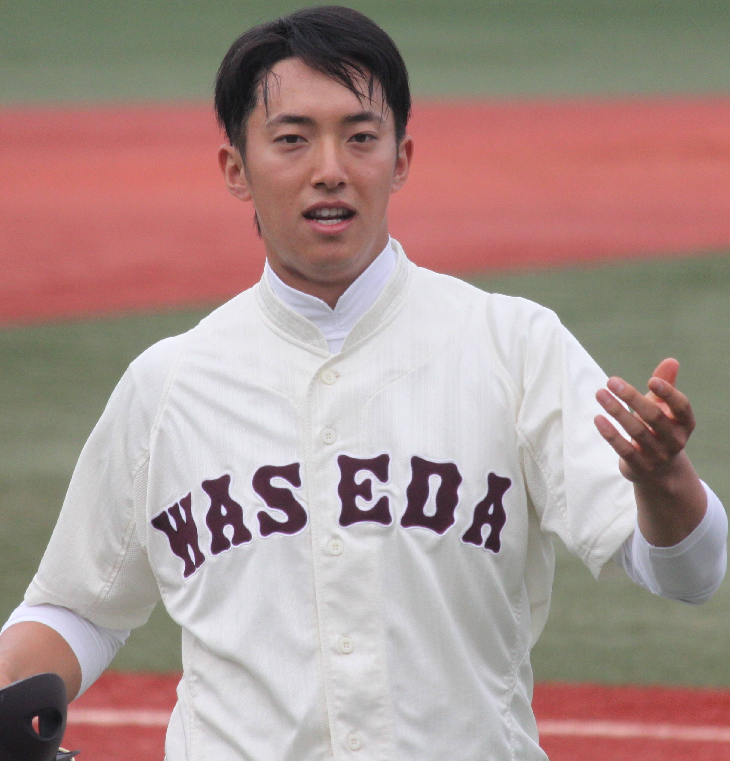 Takaaki Yokoyama, pitcher of the Waseda University Baseball Club, at Meiji Jingu Stadium.